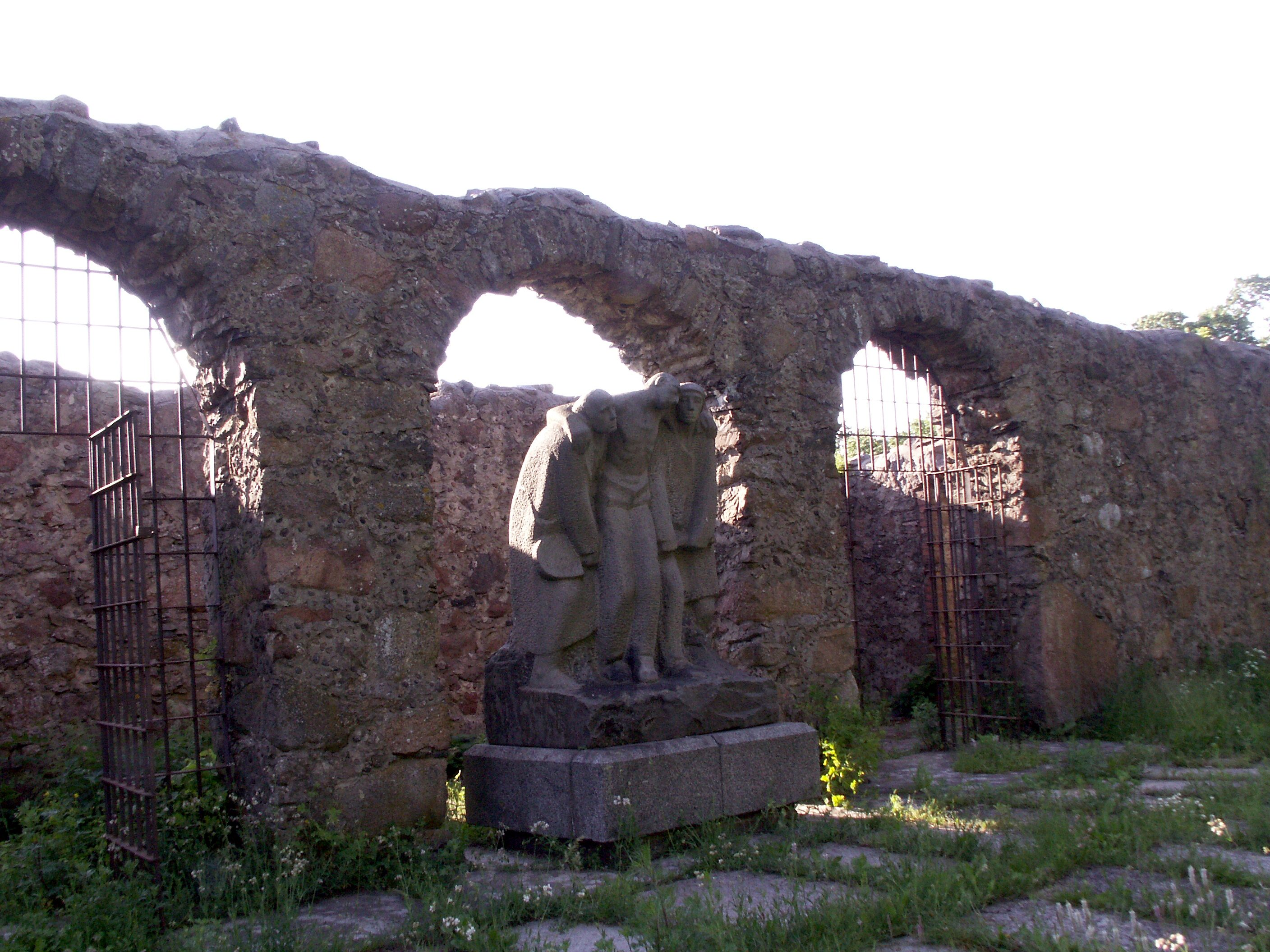 Settlement Dimitravas, Kretinga district, Lithuania